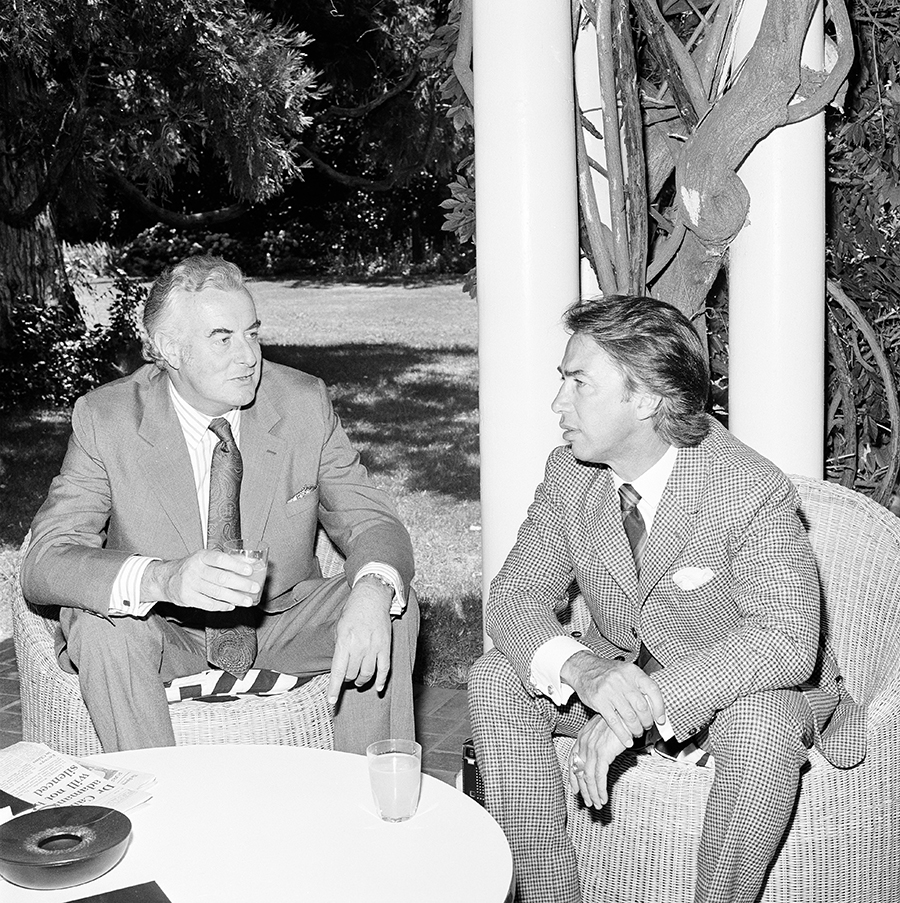 Prime Minister Gough Whitlam and Premier Don Dunstan of South Australia meeting at The Lodge in 1973.